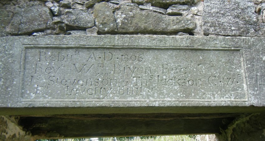 Stone builders plaque qithin the old church of Kilcronaghan parish in the townland of Mormeal